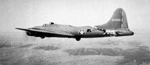 Boeing B-17F-5-BO (S/N 41-24406) "All American III" of the 97th Bomb Group, 414th Bomb Squadron, in flight after a collision with an Me-109 over Tunis. The aircraft was able to land safely on her home base in Biskra, Algeria.